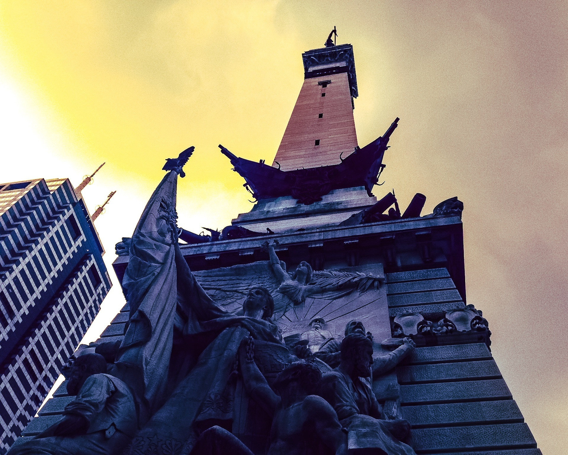 The Soldiers and Sailors Monument in Indianapolis, Indiana before a rainstorm